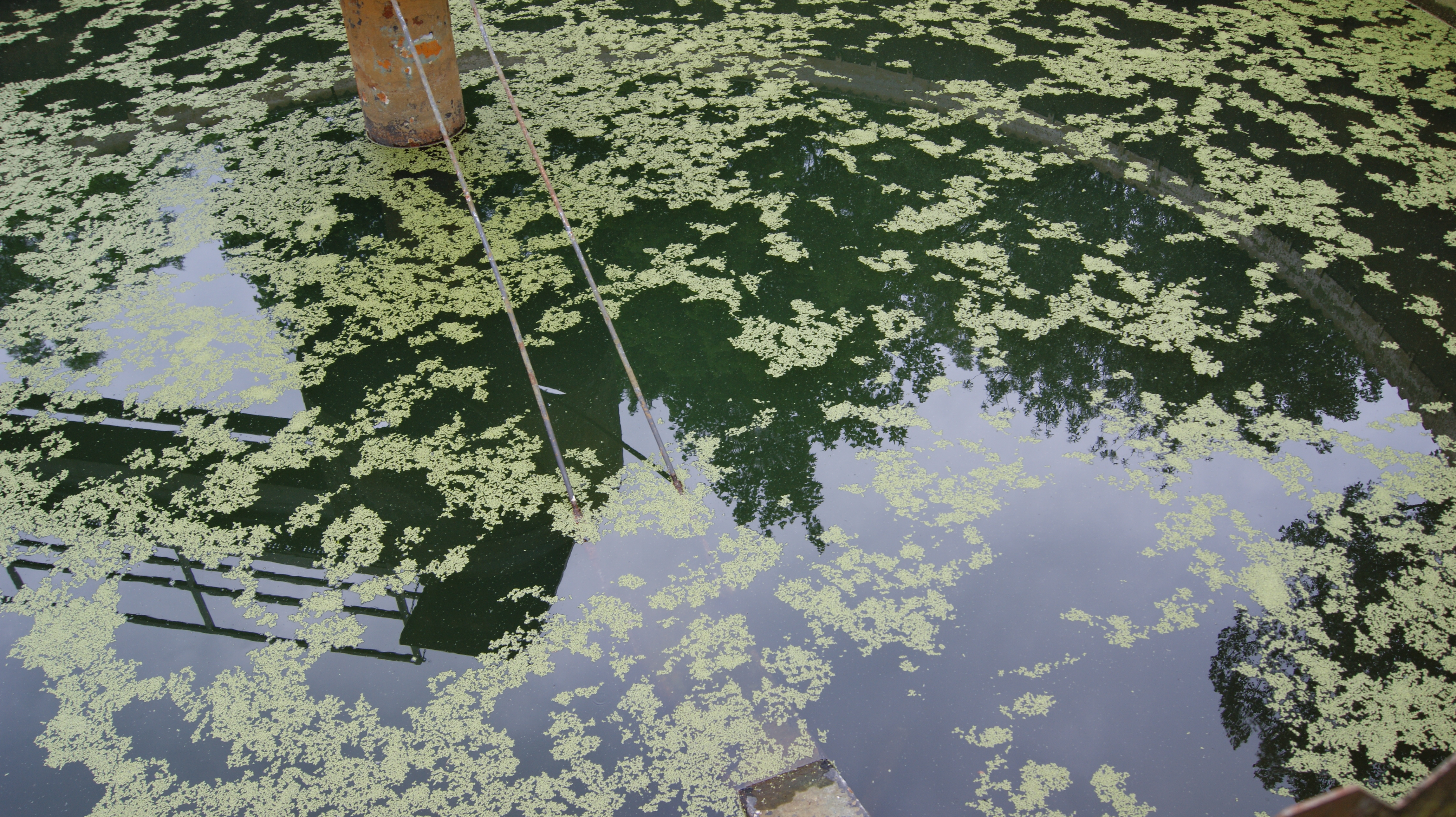 Sewage treatment plant Dornbirn-Schwarzach in Vorarlberg, Austria. Duckweed.